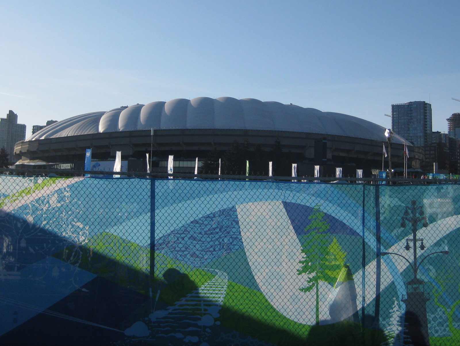 BC Place @ Olympics 2010